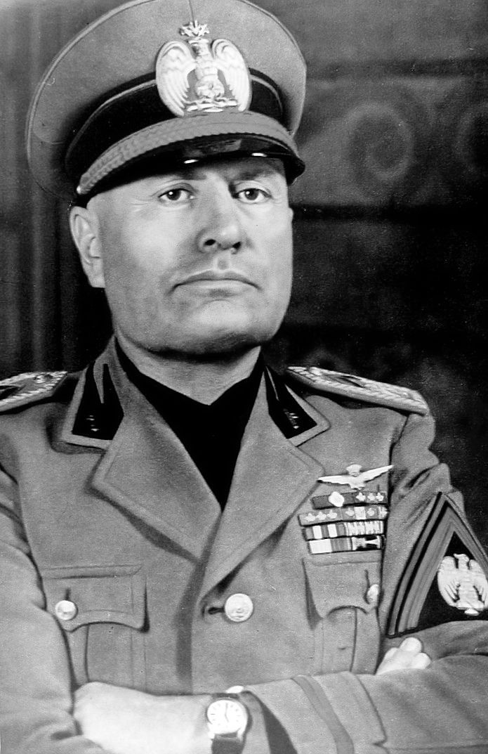 Derivation from colorized version at Wikimedia Commons - author unknown, image is in the Public Domain in Italy